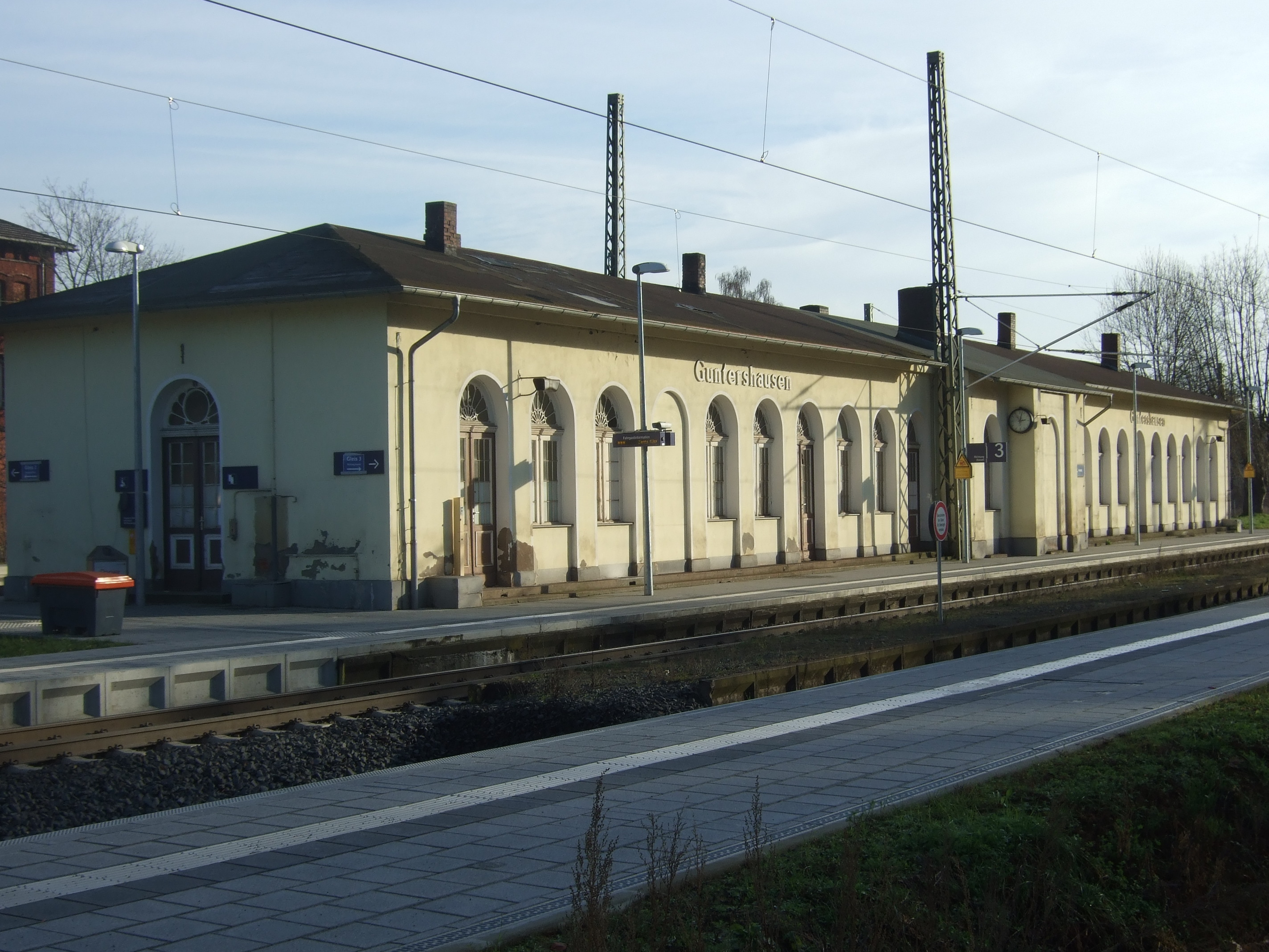 Railstation Guntershausen (Baunatal)